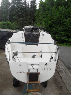 Sunstar 18